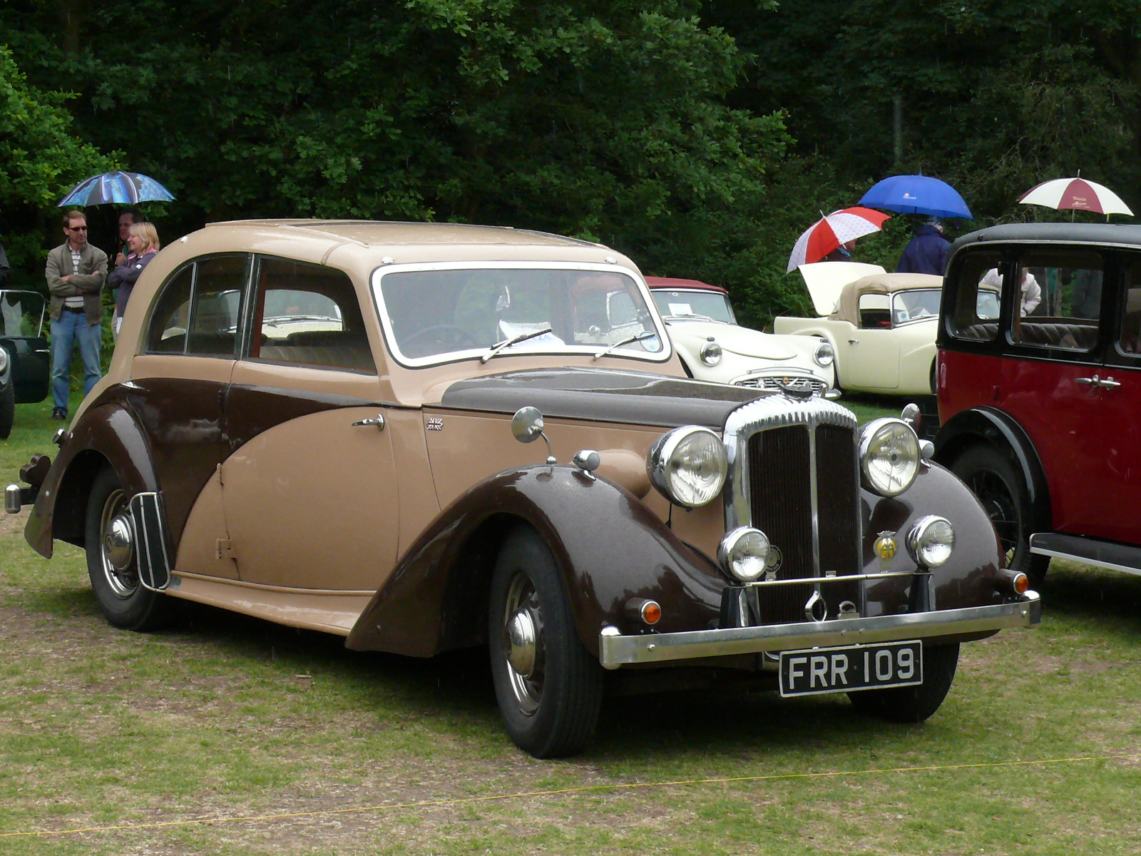 Daimler Eighteen Dolphin sports saloon 1940 [FRR 109] Daimler & Lanchester Owners Club, International Rally, Queen's Birthday weekend, Sandringham, Norfolk Sunday 12 June 2011 (DVLA) 2522cc, 1940